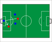 sketch of offside position